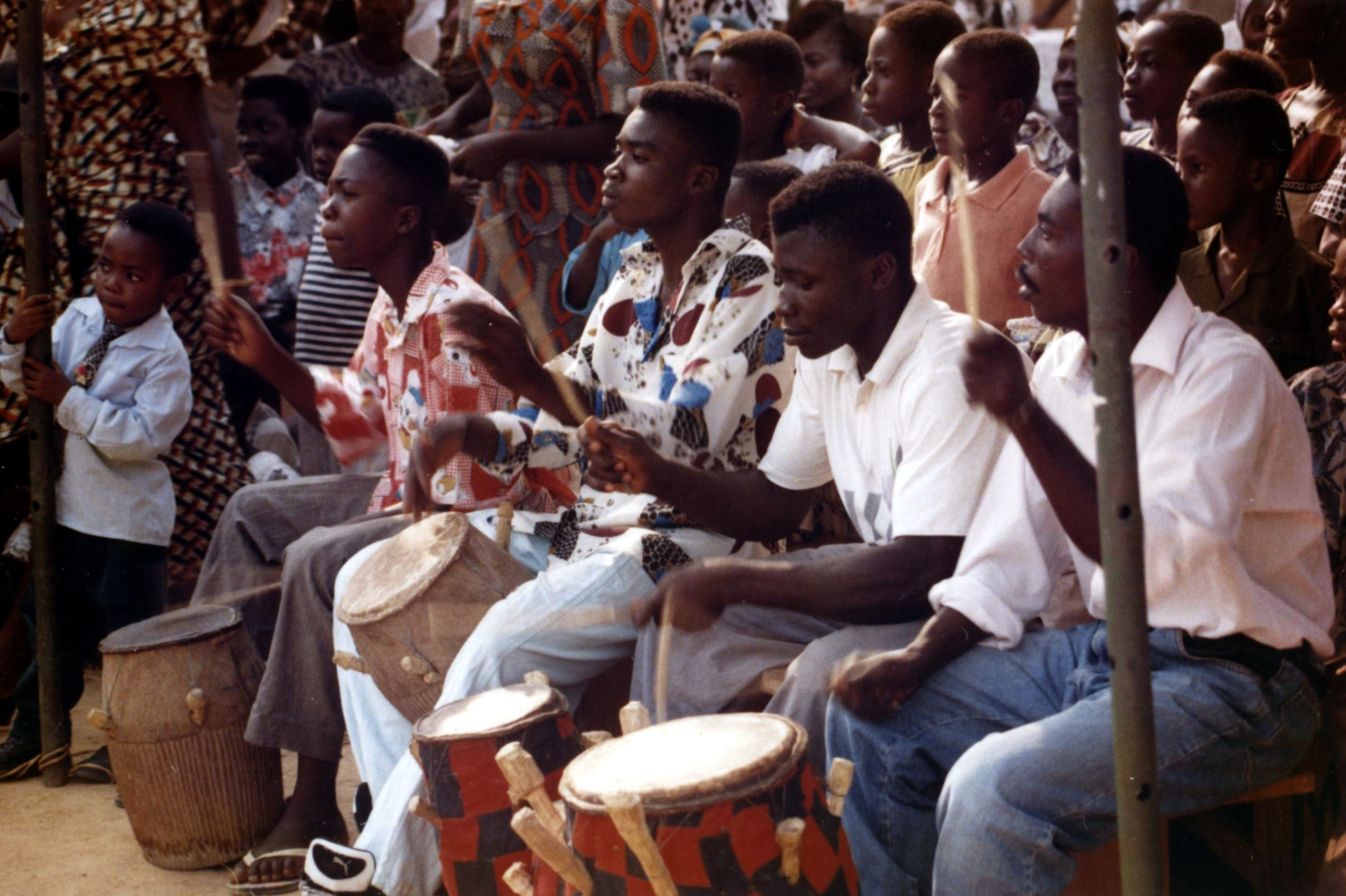 This is an image with the theme "Play" from: Ghana